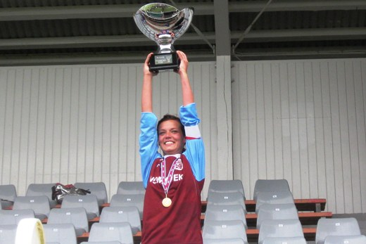 AB women cup winners 2009 capitan